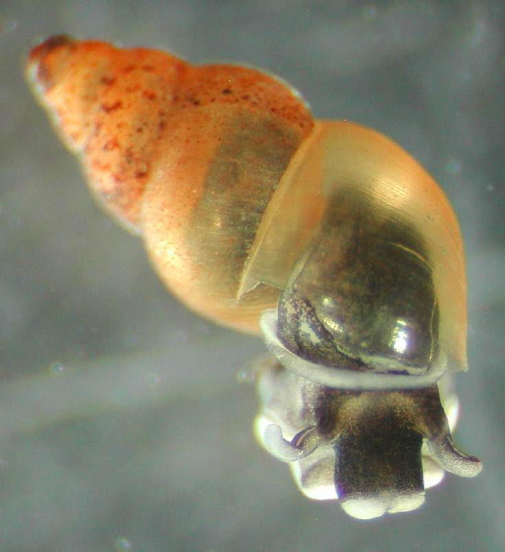 New Zealand Mudsnail